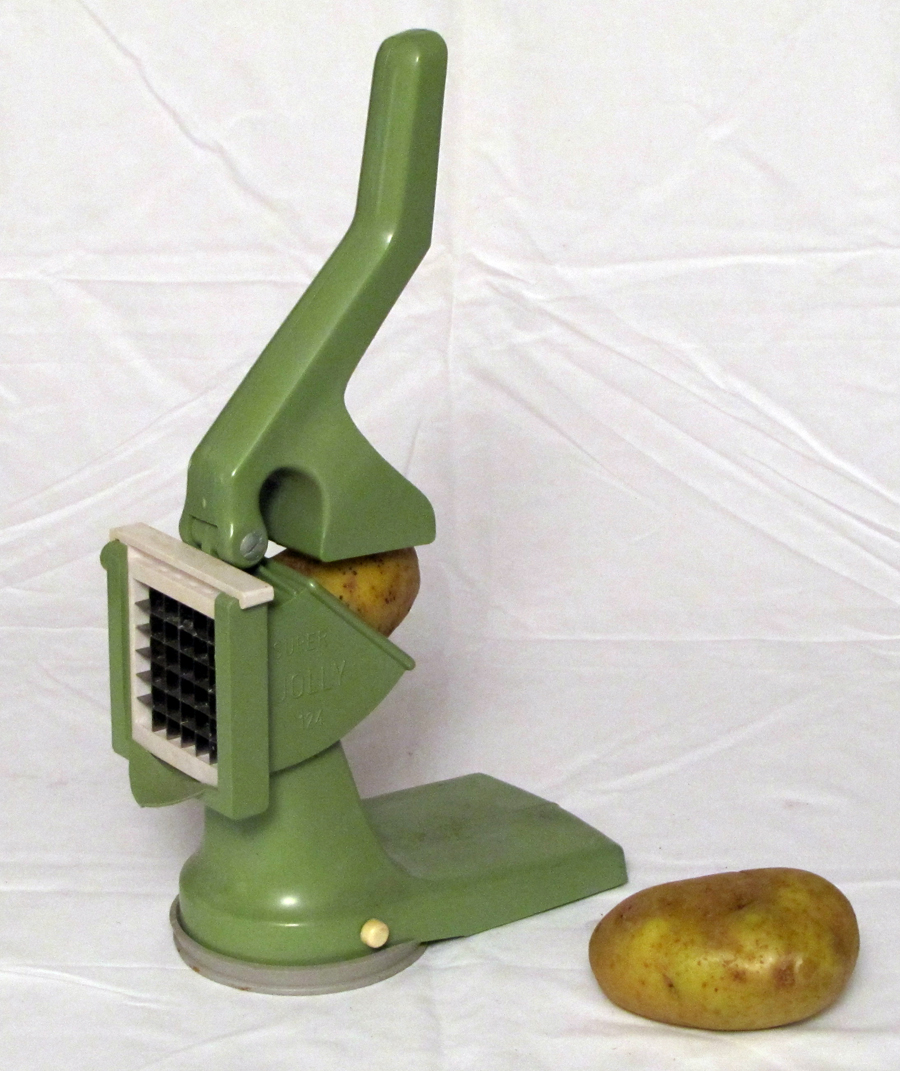 chip-cutter, Gourmet museum, Hermalle-sous-Huy, Belgim